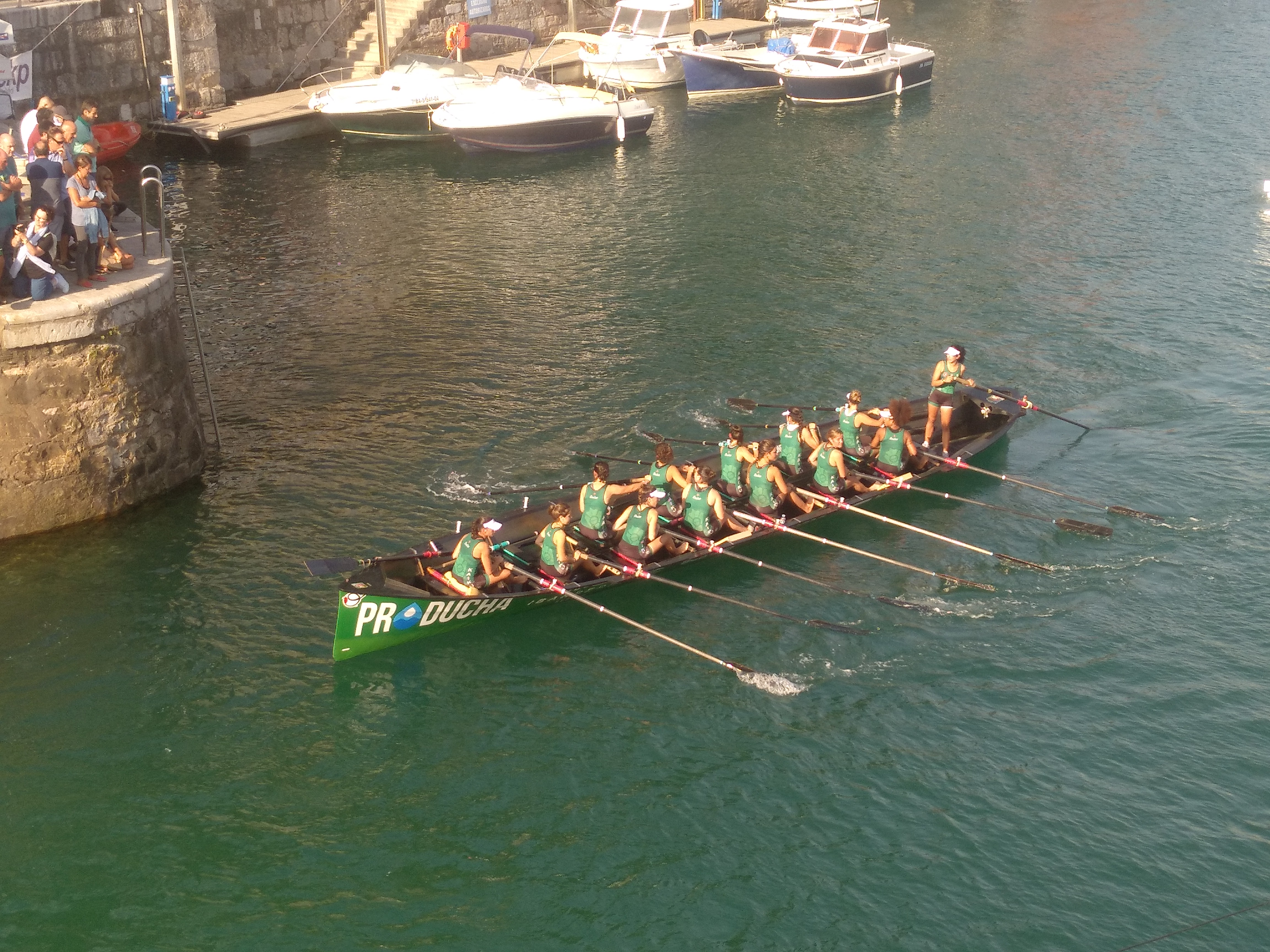 Kaiku AKE women, Flag of La Concha, 2018